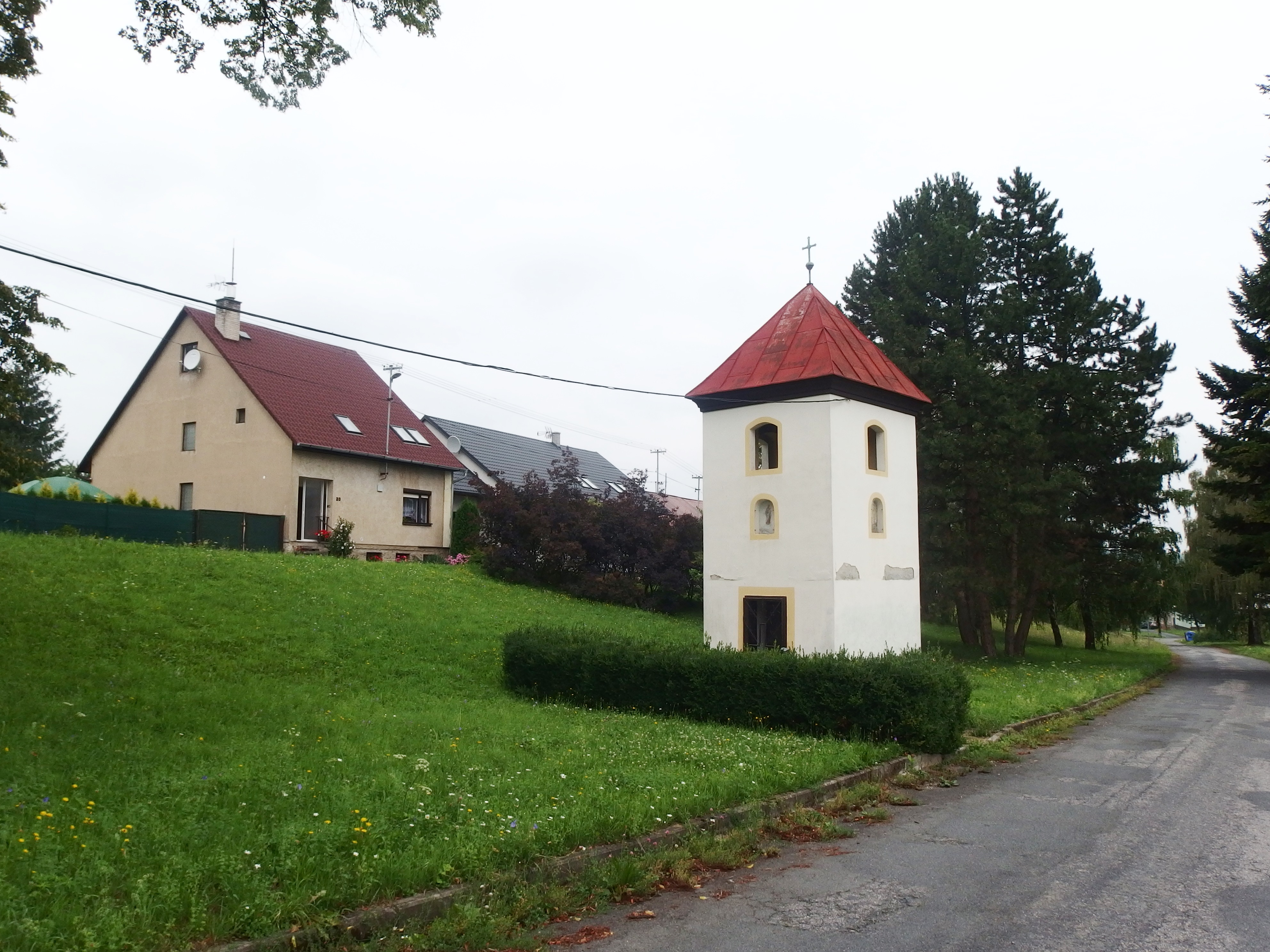 Bystřice pod Hostýnem, Kroměříž District, Czech Republic, part Hlinsko pod Hostýnem.